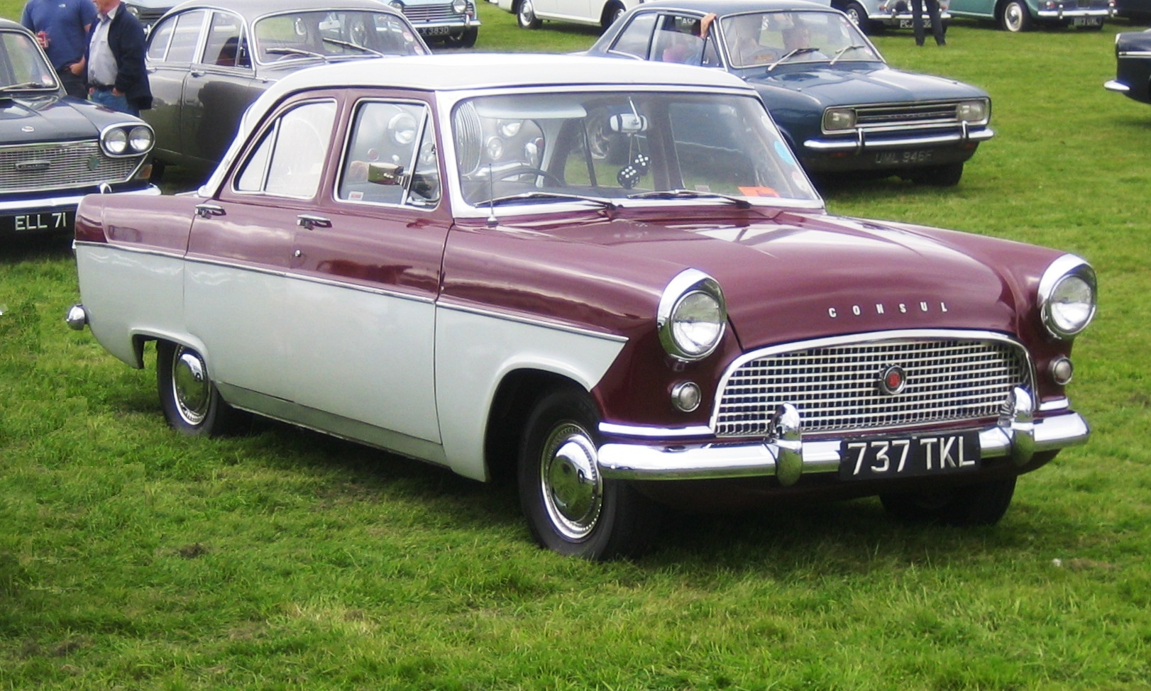 Ford Consul - this one built towards the end of the car's model life - at Knebworth Classic Car Show